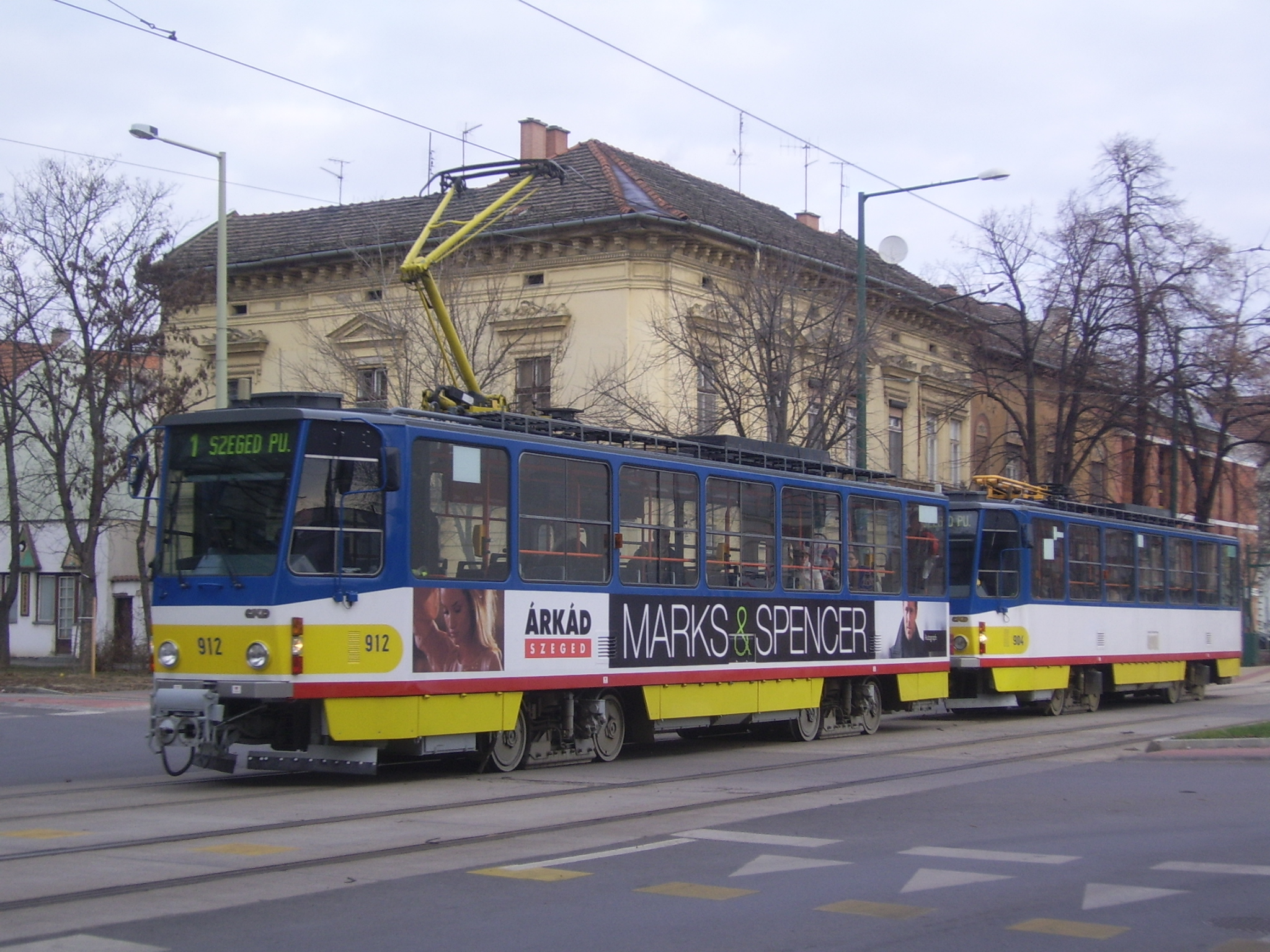 Tramcar on the Alsóváros section of the tram line 1 in Szeged